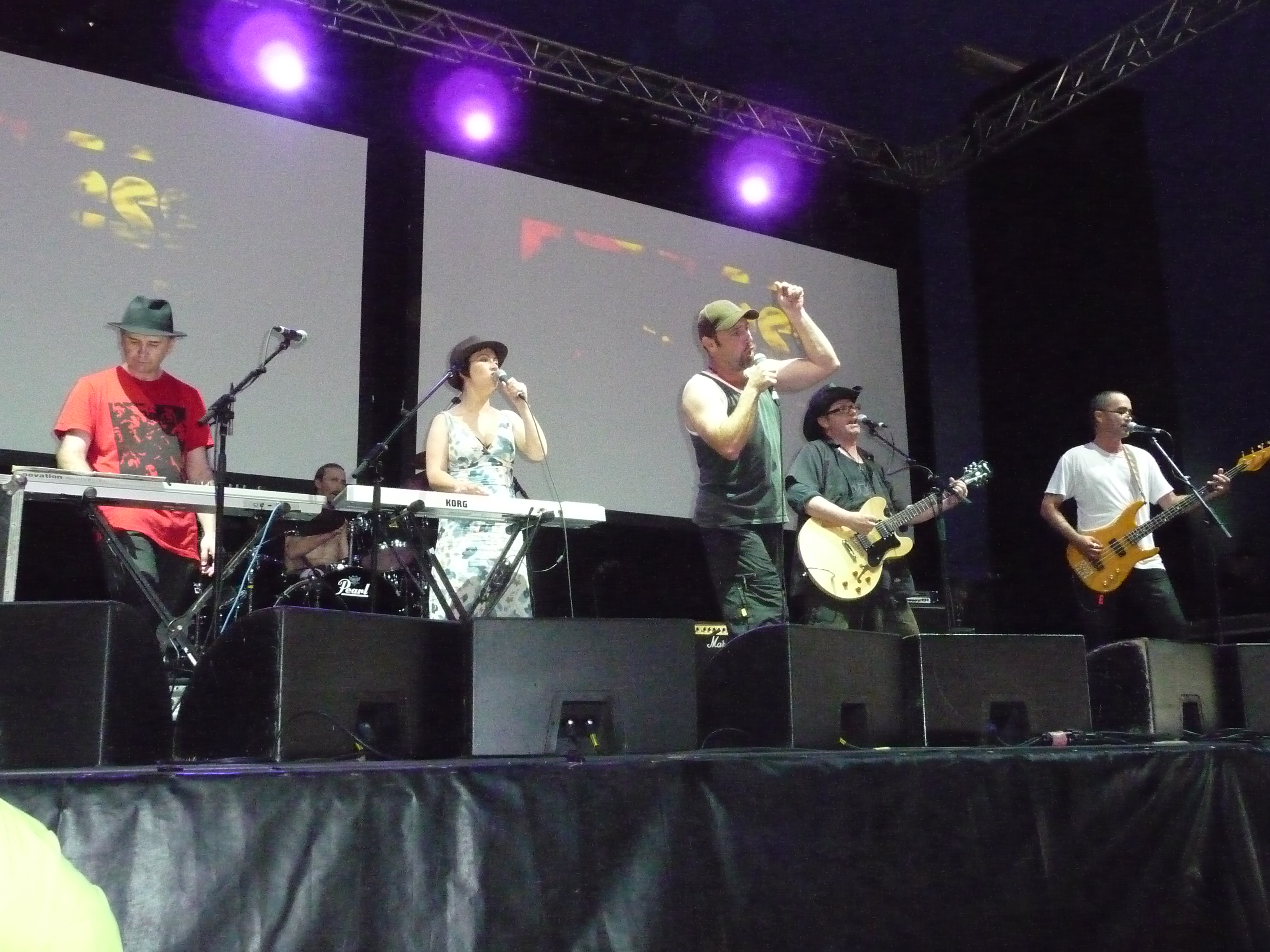 The Headless Chickens perform "Donde Esta La Pollo" at Homebake 2008 in Sydney.